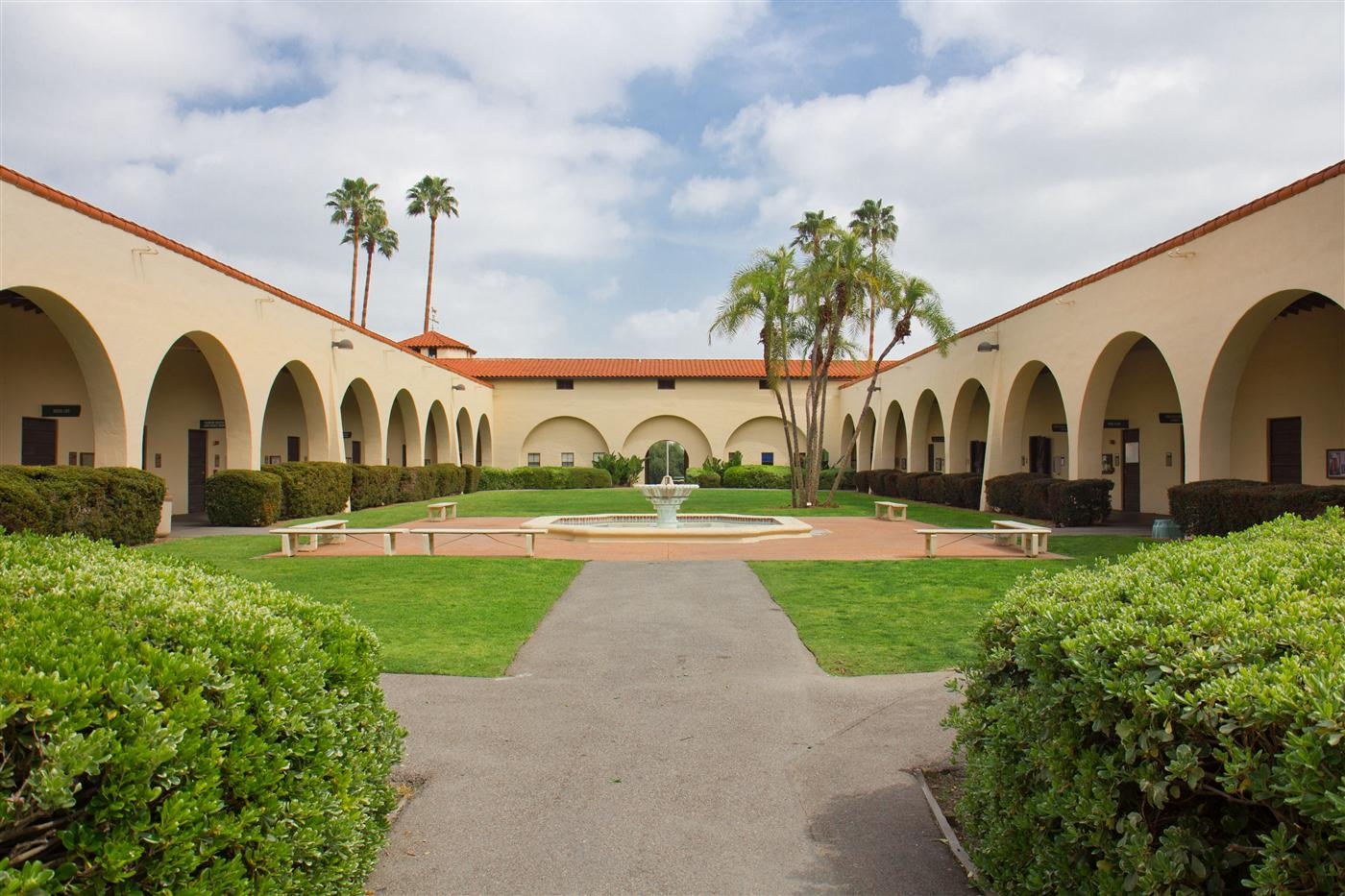 The original Arabian horse stables of the Kellogg Estate, designed by Myron Hunt. Now on the Cal Poly Pomona campus, and where classes were first held.